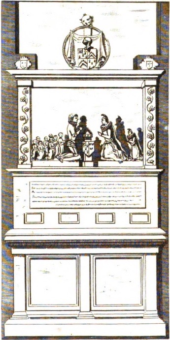 Illustration of an alabaster monument to Sir Cavalliero Maycote, his wife Marie and their nine children, drawn by John Pridden in 1785. Pridden's use of shadow indicates that the figures were sculpted in the round. The monument was mounted on the south wall, inside the chancel of St Mary's Church, Reculver. It did not record the date of Cavalliero Maycote's death, but he was recorded as living in 1618. The monument was destroyed in 1809, when most of the church was demolished. A vault containing the family's coffins is under the ruined chancel of the church. The text below the figures is printed at Pridden, p. 166.